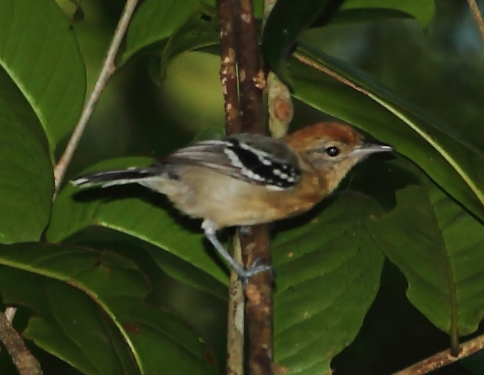 Pectoral antwren (female) at Natal, RN, Brazil